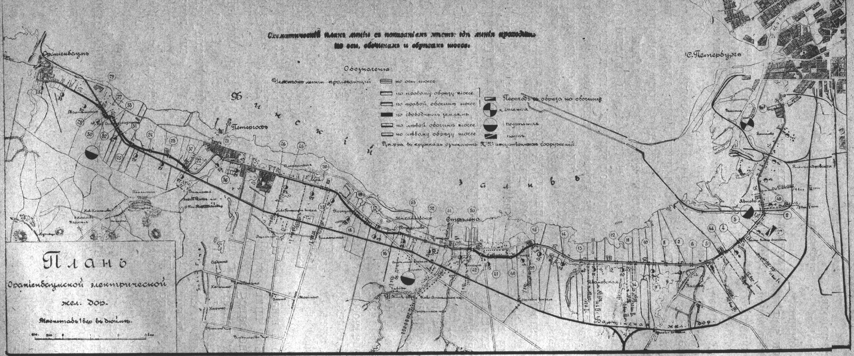 «Oranienbaum Electric Line» project. From the report of an engineer-electrician A. A. Smurov, which was read at 3-th congress of engineer-electricians.